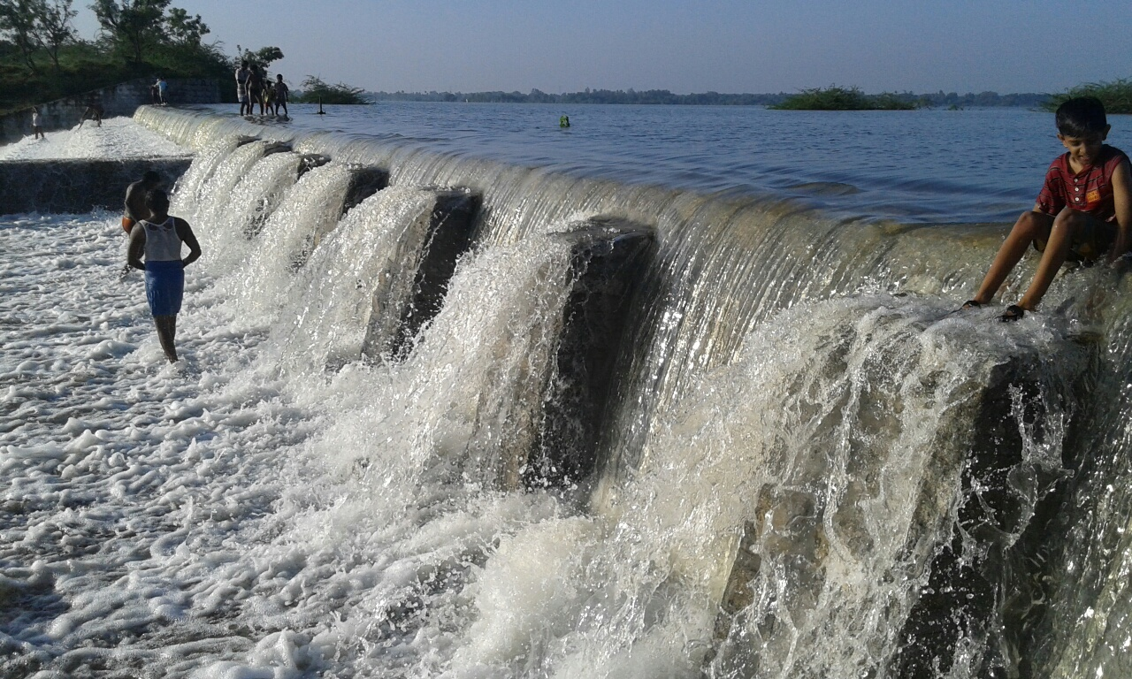 View of water flow